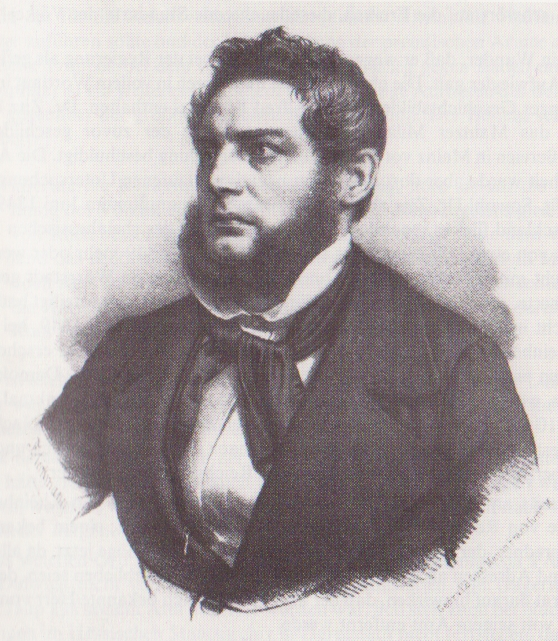 Picture of Franz Zitz